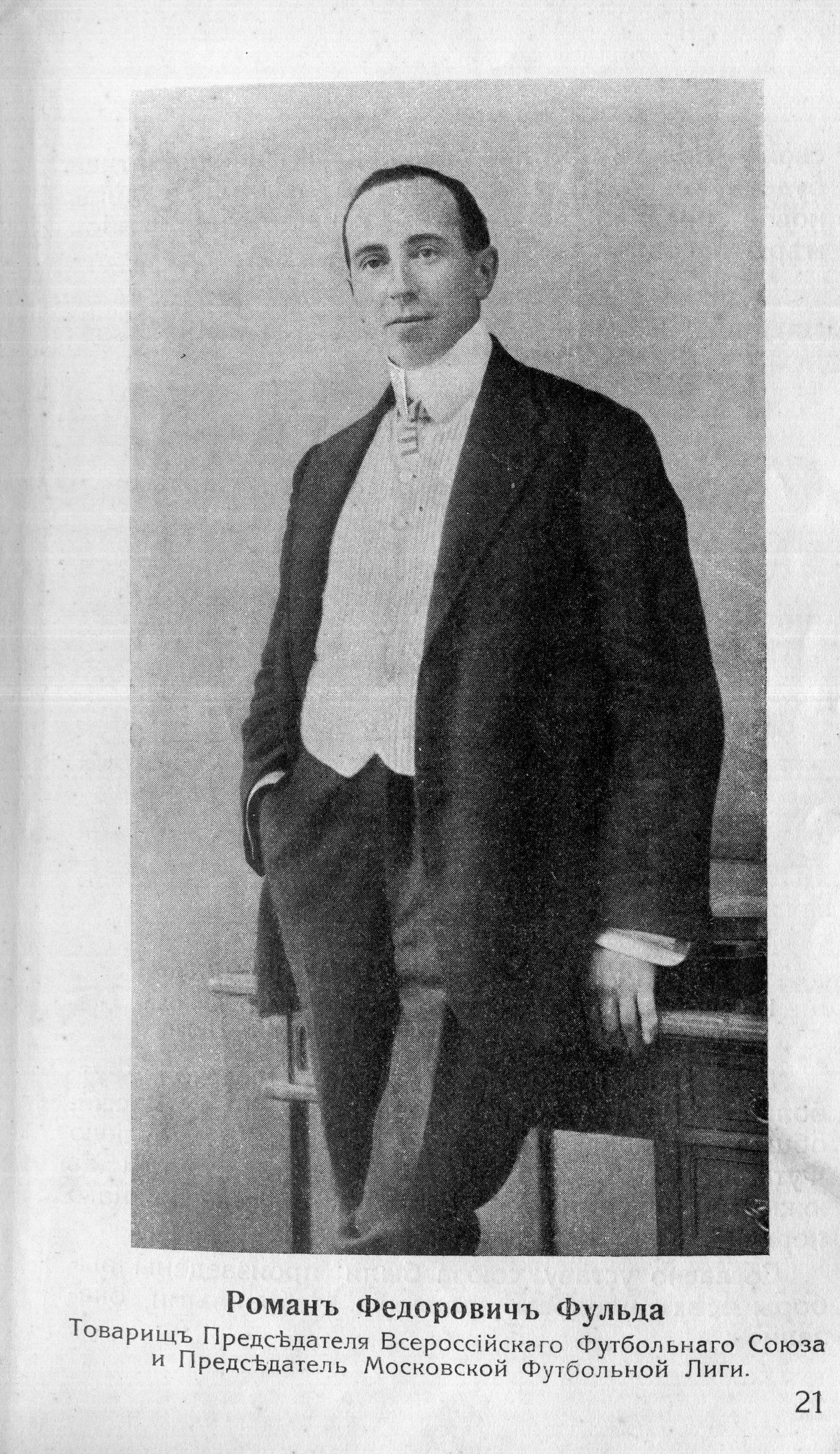 Roman Fulda - the president of All-Russian Football Union (1914—1915) and the founder of Moscow Foot-ball League.